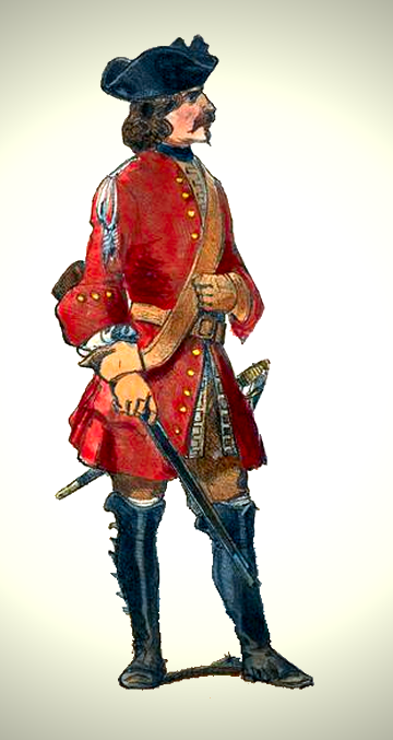 Adapted from print in the Vinkhuijzen Collection of Military Costume Illustration assembled by H. J. Vinkhuijzen (1843-1910)